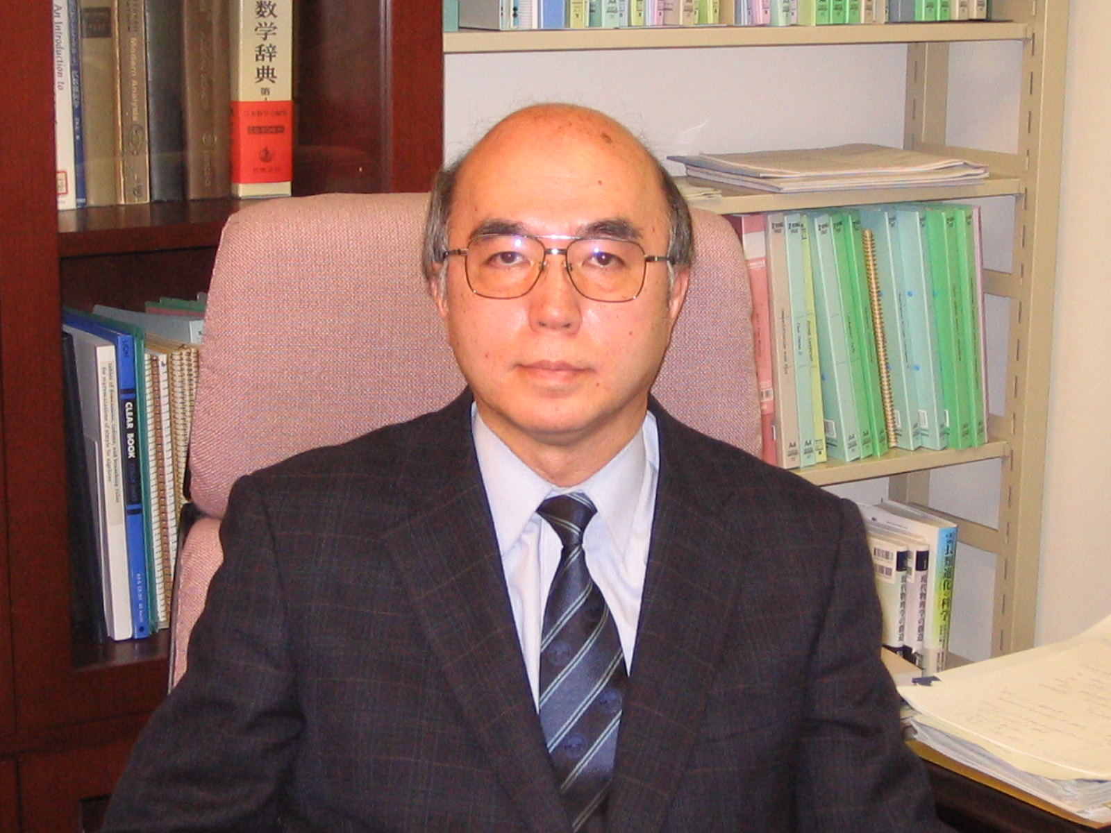 Photo of Professor Tohru Eguchi in his office, when he received Imperial Prize & Japan Academy Prize 2009